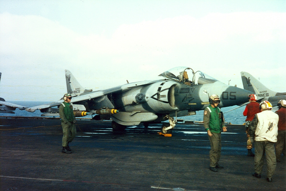 A U.S. Marine Corps McDonnell Douglas AV-8B-5-MC Harrier II (BuNo 162083) from Marine Attack Squadron VMA-331 Bumblebees. In 1991, the squadron deployed on the USS Nassau (LHA-4) to the Persian Gulf and eventually flew 243 sorties dropping 256 tons of ordinance during the 1991 Gulf War and became the first USMC attack squadron to conduct combat operations from an amphibious assault ship. The AV-8B 162083 was later converted to an AV-8B+-24-MC and given the new BuNo 165309.